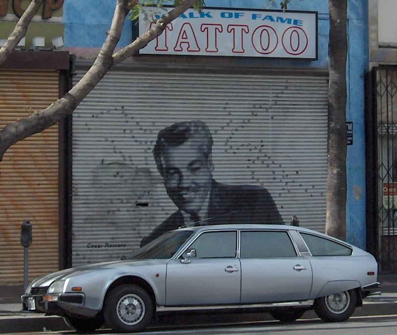 Cesar Romero and Citroën CX on Hollywood Boulevard